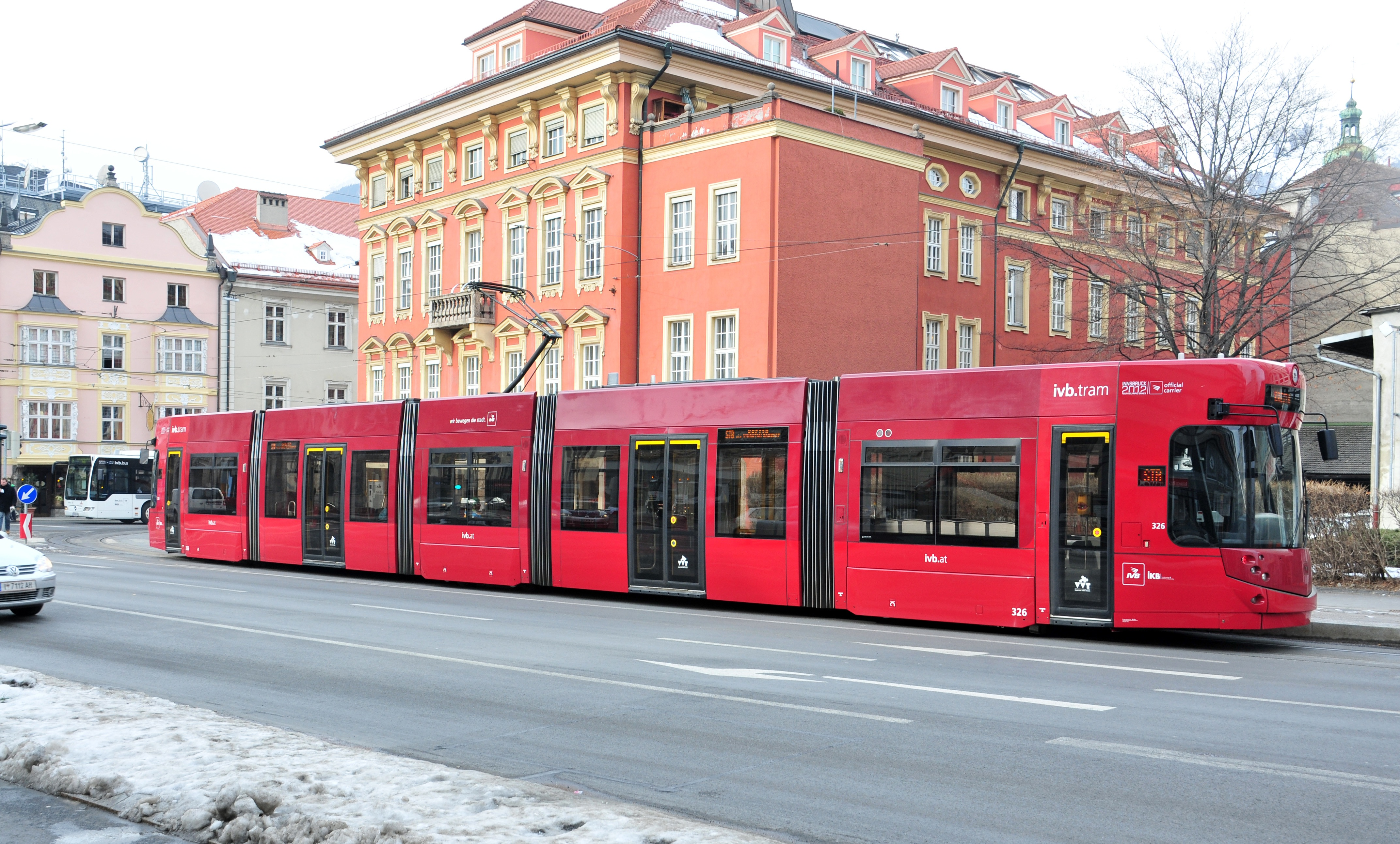 Innsbruck tram car 326, a 2009-built Bombardier "Flexity Outlook", westbound (moving to the left in this view) on Salurner Strasse just east of Maria-Theresien Strasse. Erste Olympische Jugend- Winterspiele 201213. bis 22. Jänner in Innsbruck Dieses Foto wurde durch die Unterstützung von Wikimedia Österreich und die Twoonix Software GmbH ermöglicht.